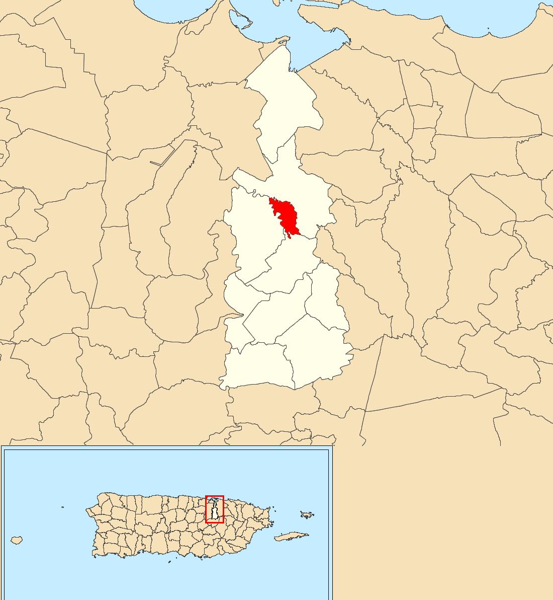 Guaynabo barrio-pueblo, Guaynabo, Puerto Rico locator map